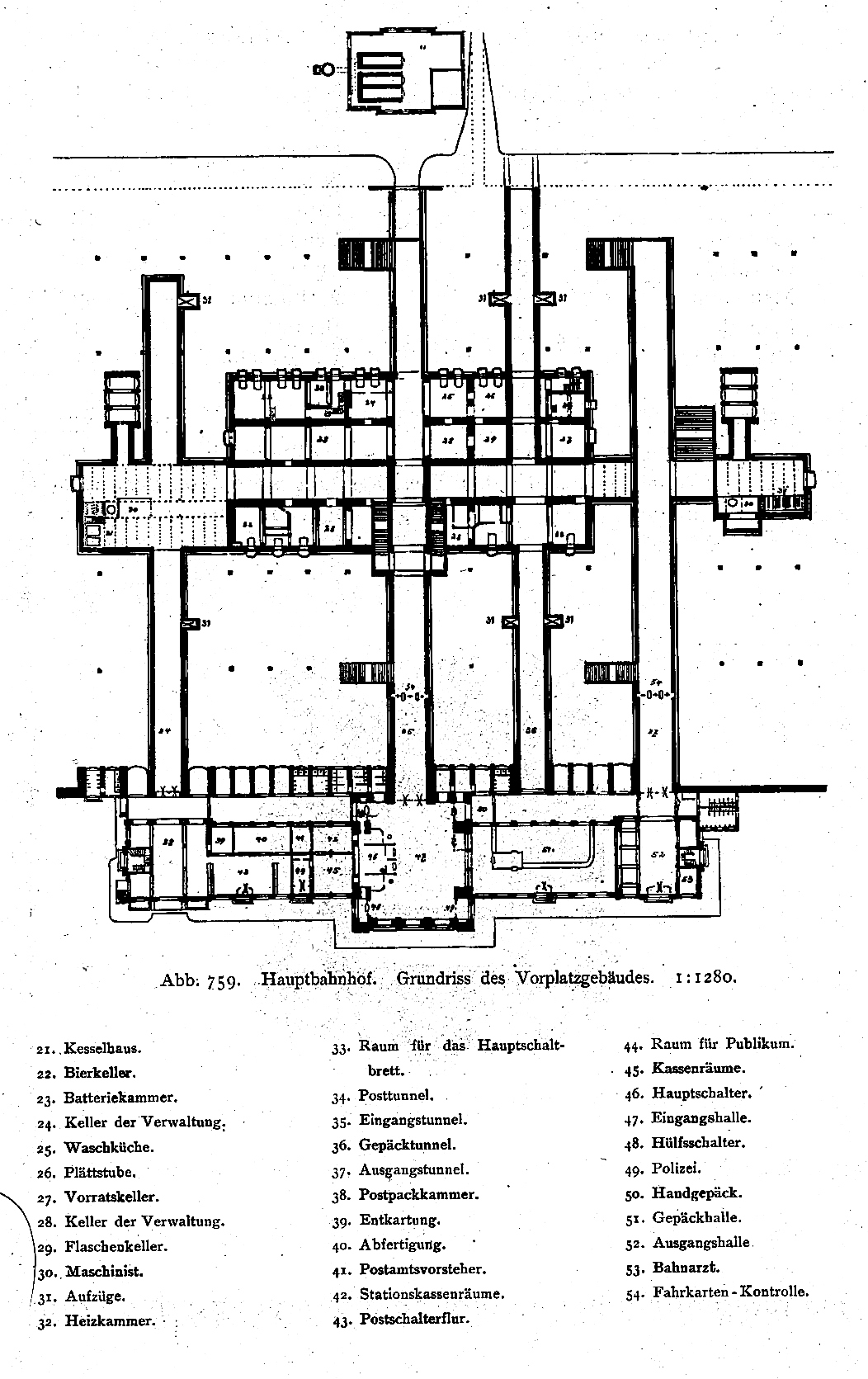 Alter Hauptbahnhof in Düsseldorf, eröffnet im Jahre 1891, abgebrochen im Jahre 1932, Grundriss_des_Vorplatzgebäudes.jpg